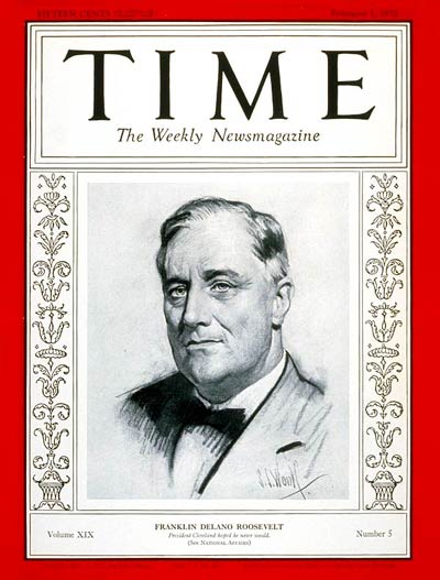 Franklin Delano Roosevelt on Time magazine cover, 1932.